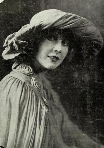 A young white woman wearing a wide-brimmed hat low over her forehead, and a voluminous cape, both in light-colored fabric.